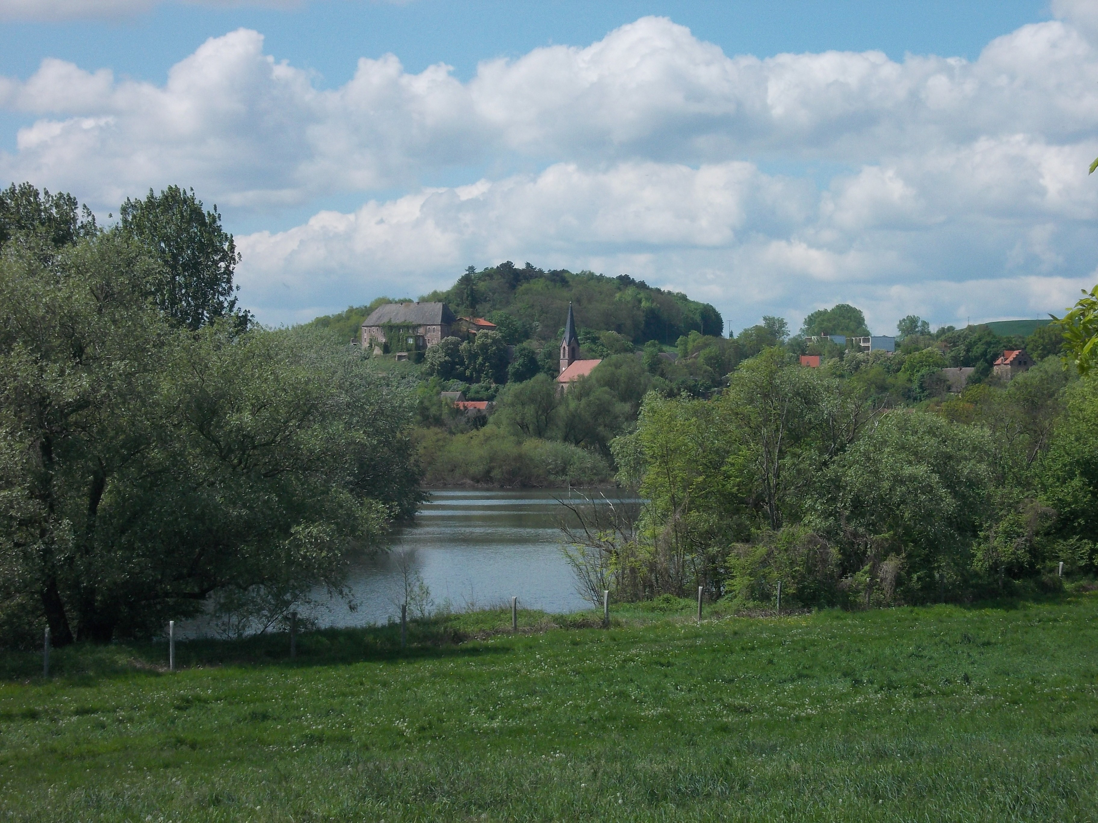 View of Friedeburg (Gerbstedt, Mansfeld-Südharz district, Saxony-Anhalt) across the Saale river, Saale valley landscape protection area, the hills belong to the nature reserve Saale gap near Rothenburg